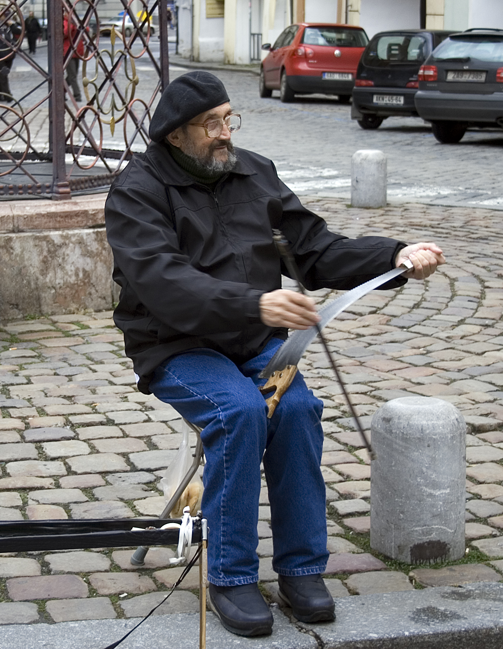 A busker playing the musical saw in Prague, Czech Republic